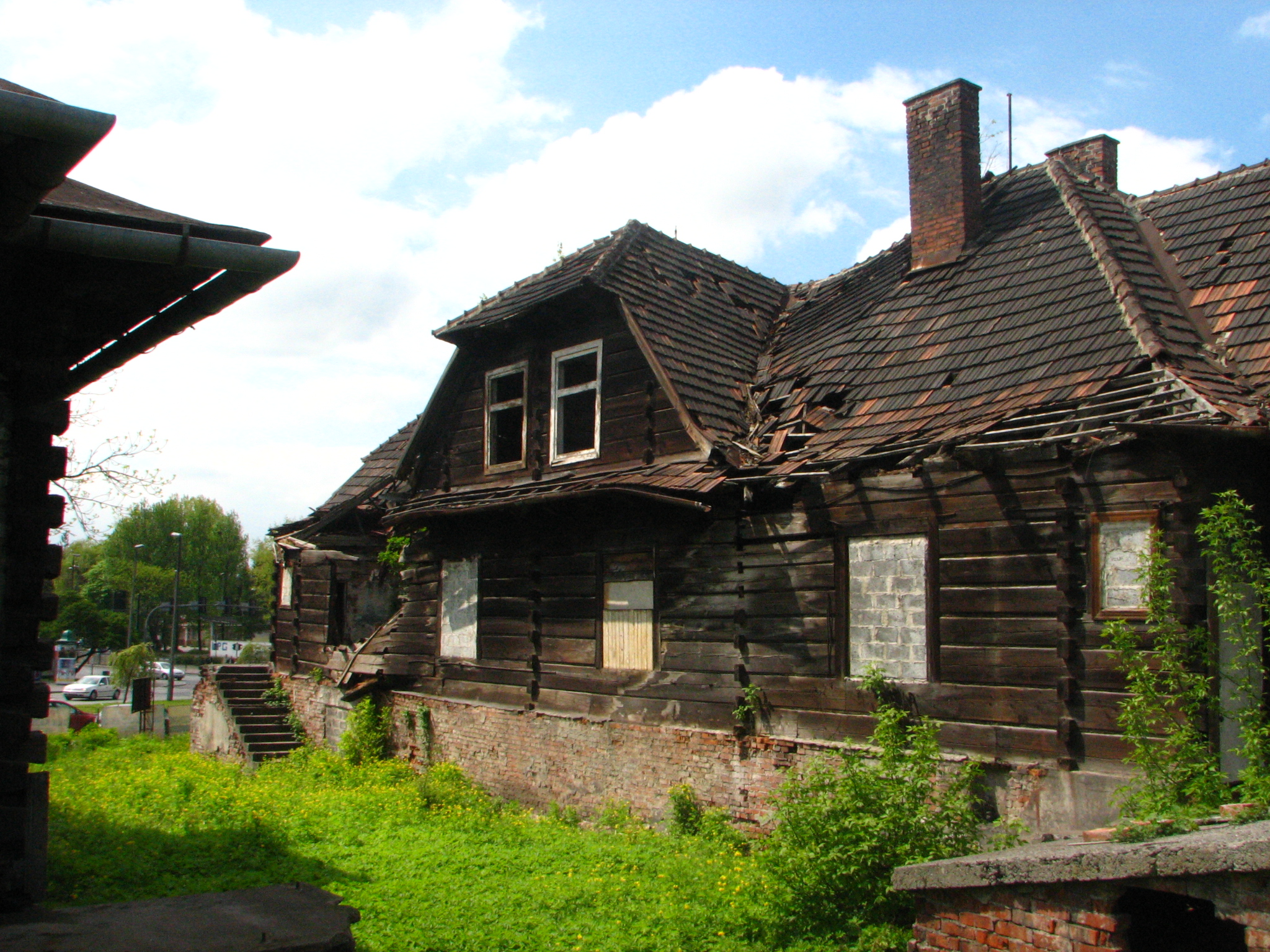 The historic wooden villa (Zamoyski Street 81) in Kraków, designed by Józef Gałęzowski.